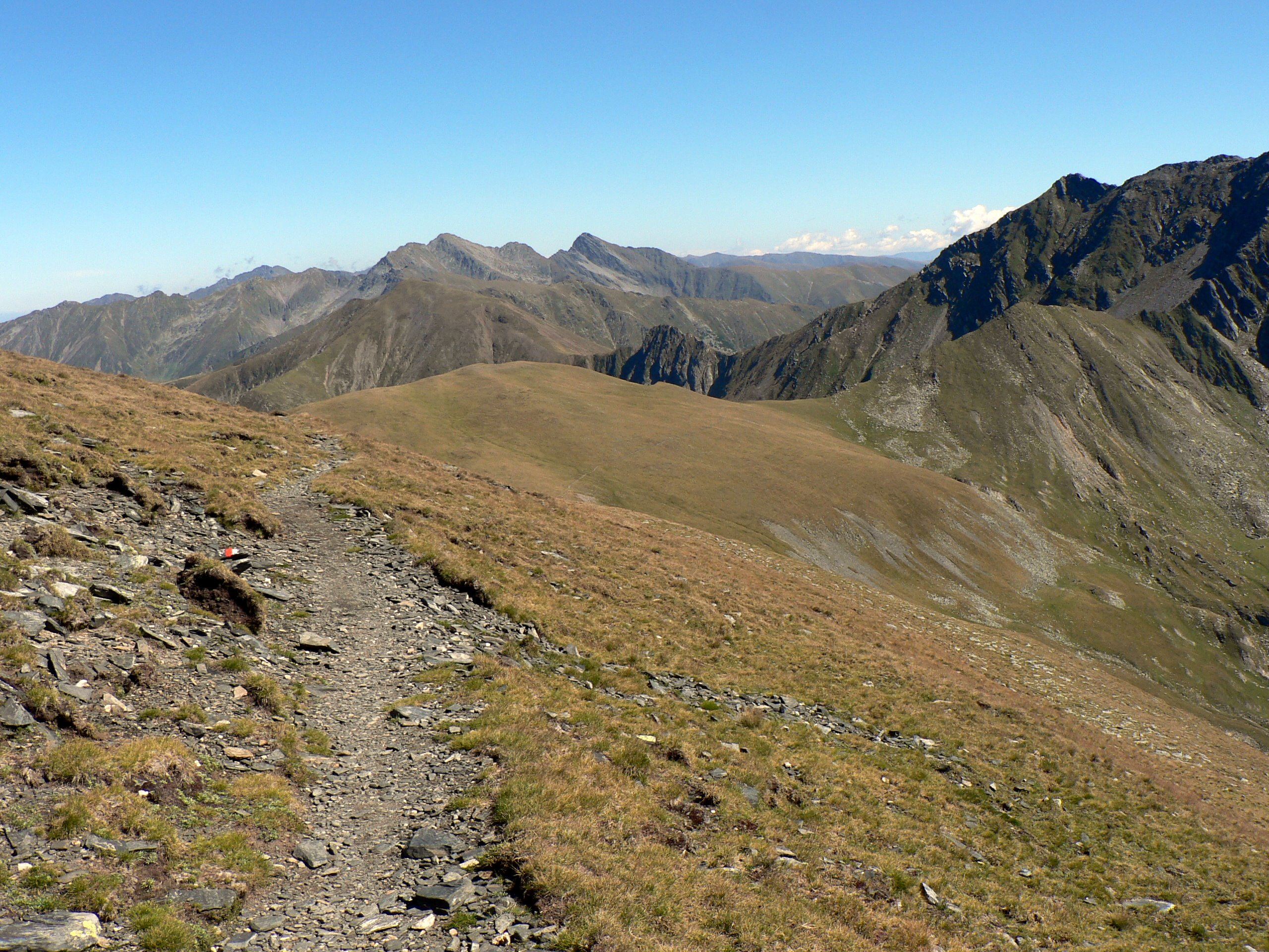 Fagaras Mountains, September 2009